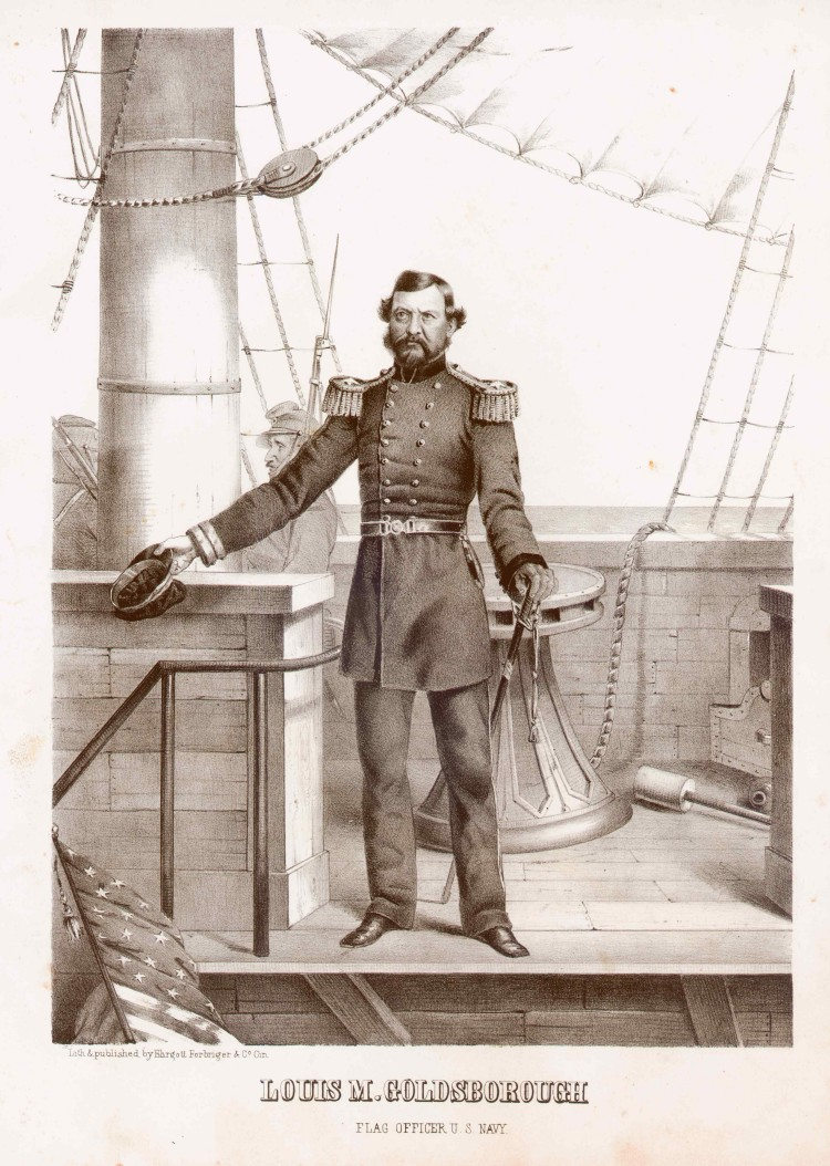 Picture "Louis M. Goldborough US Navy Flag Officer".